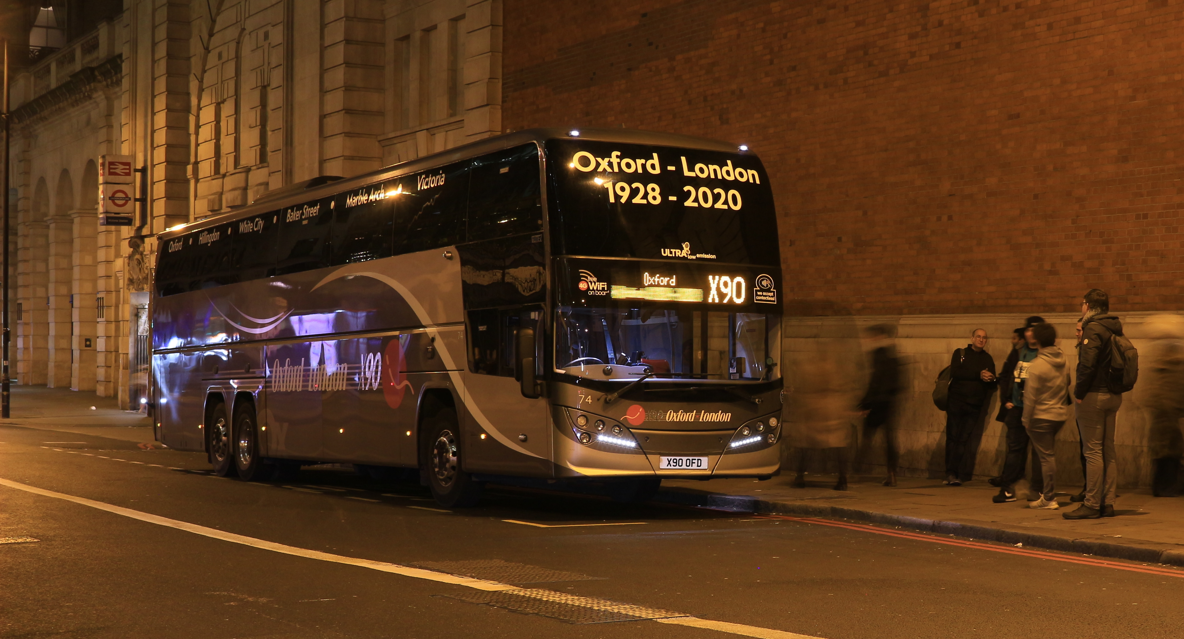 Oxford 74 at London Victoria, prior to working the last X90 service into Oxford